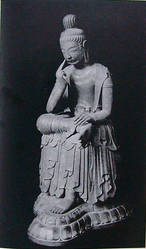 Miroku Bosatsu in half-lotus position, Camphorwood, gold leaf over lacquer, 66.4 cm (26.1 in), Koryuji Treasure House, Kyoto, Japan